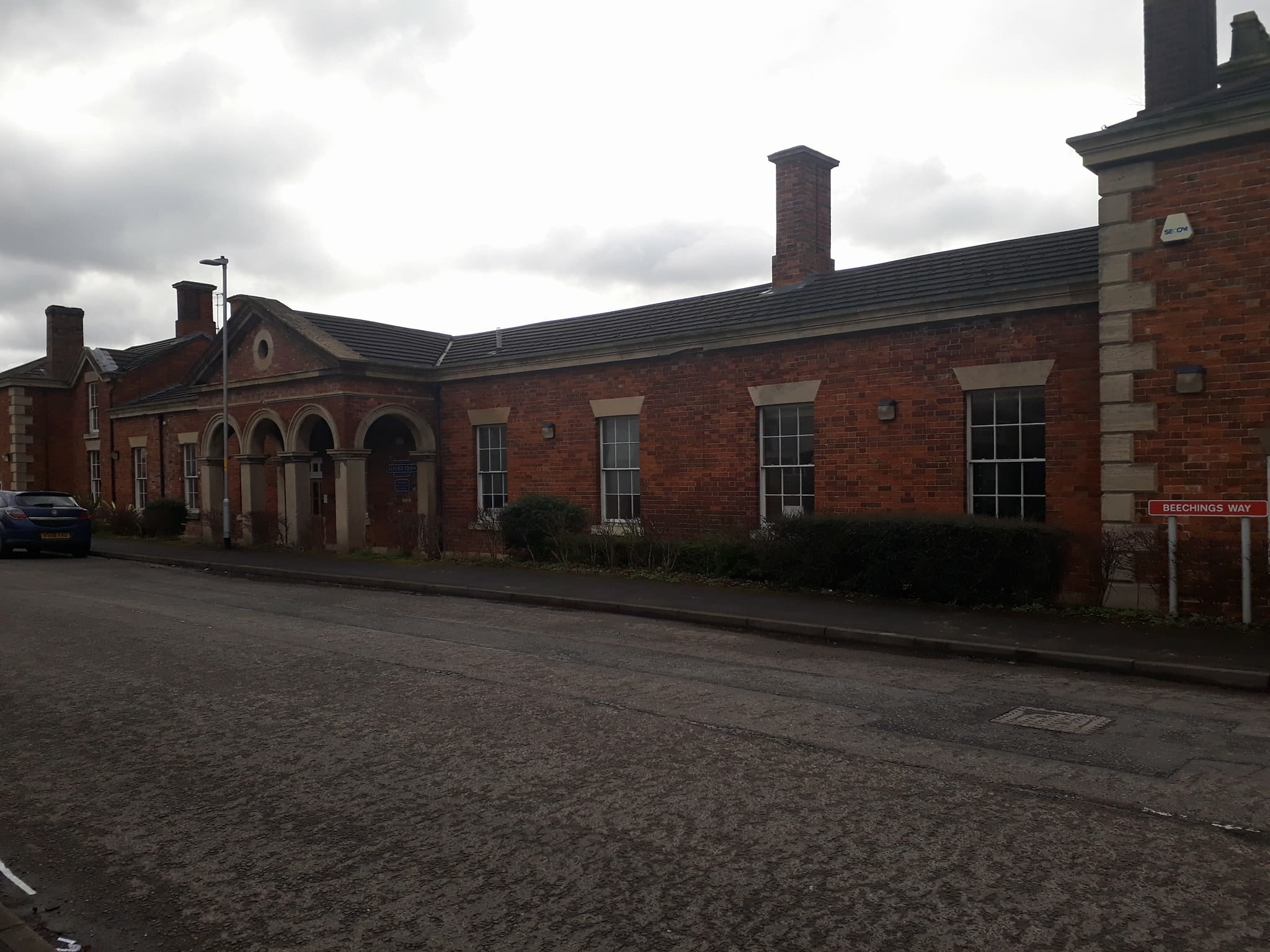 An update for the Alford Town page.